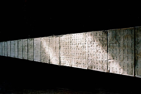 Bożenna Biskupska. Wytyczanie obrazu 343.